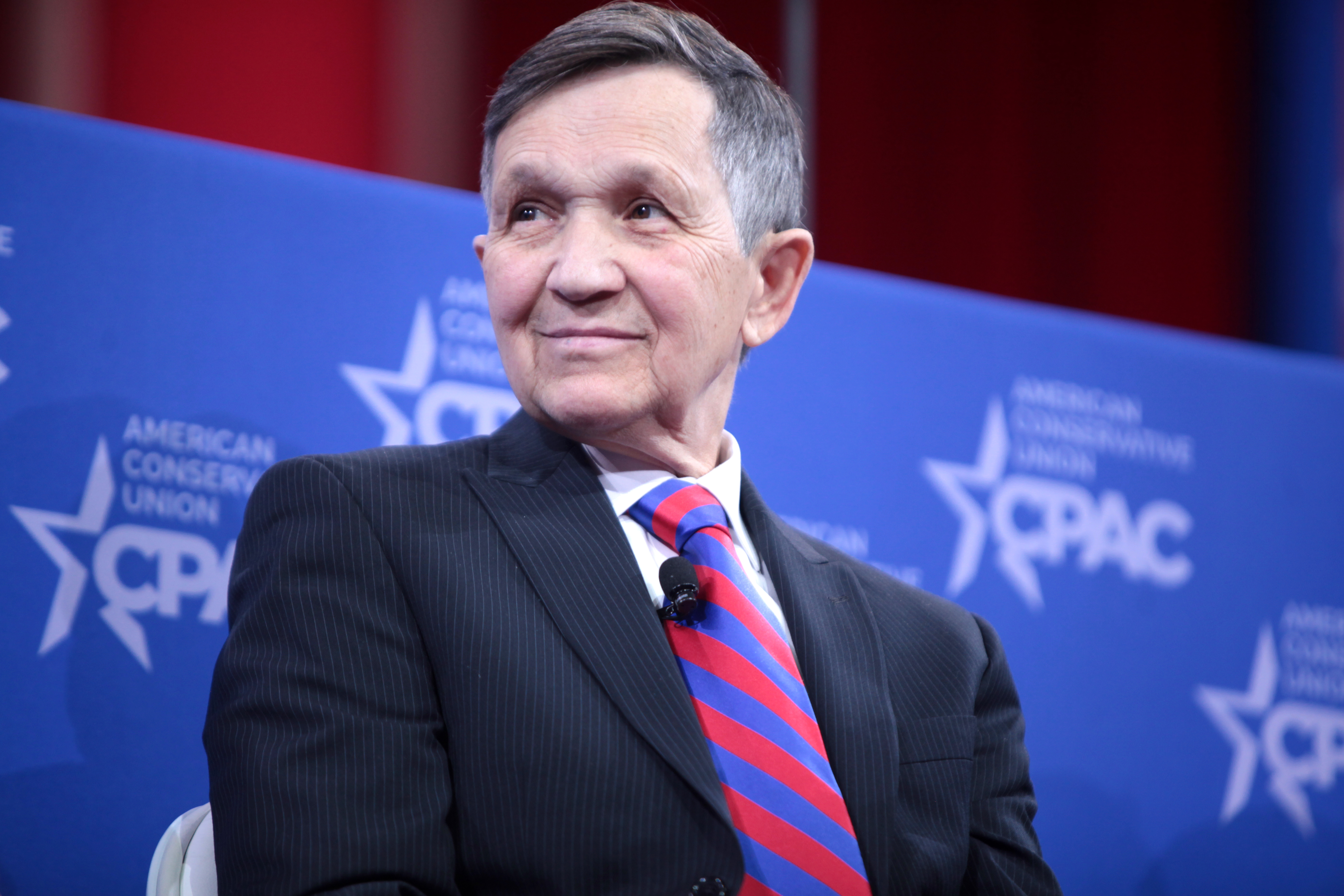 Dennis Kucinich speaking at CPAC 2015 in Washington, DC.